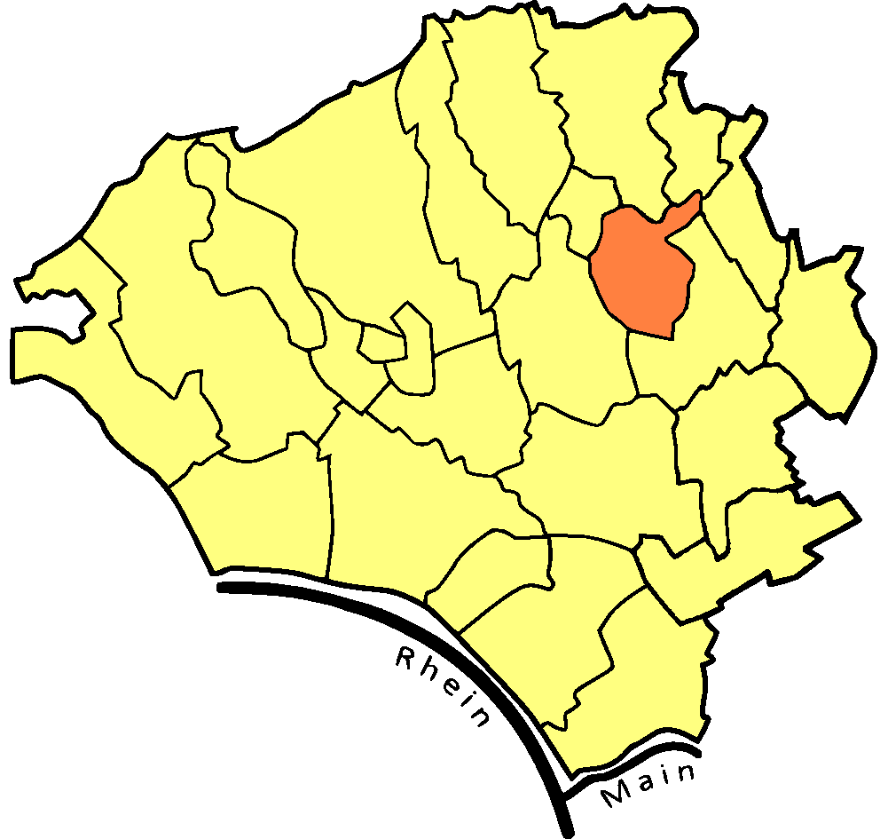 Map of Wiesbaden showing the location of Kloppenheim